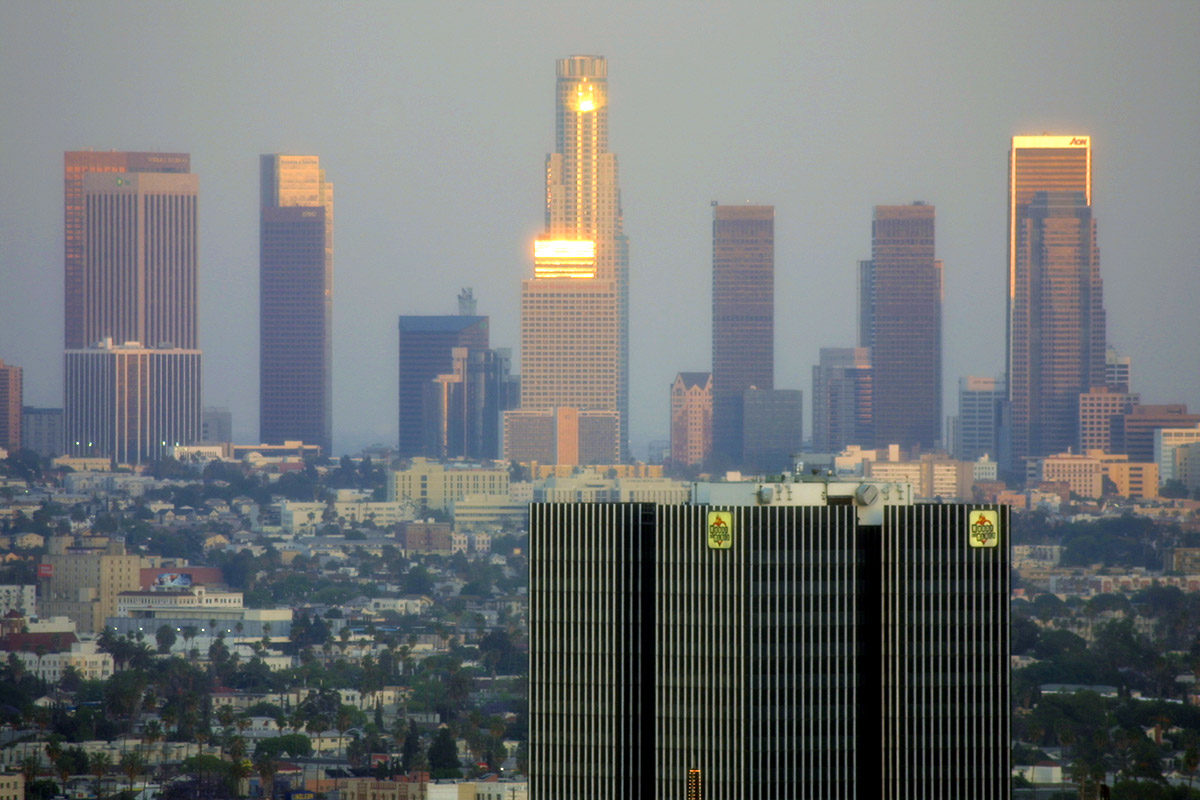 Sunset over Downtown Los Angeles as seen from the Hollywood Hills.